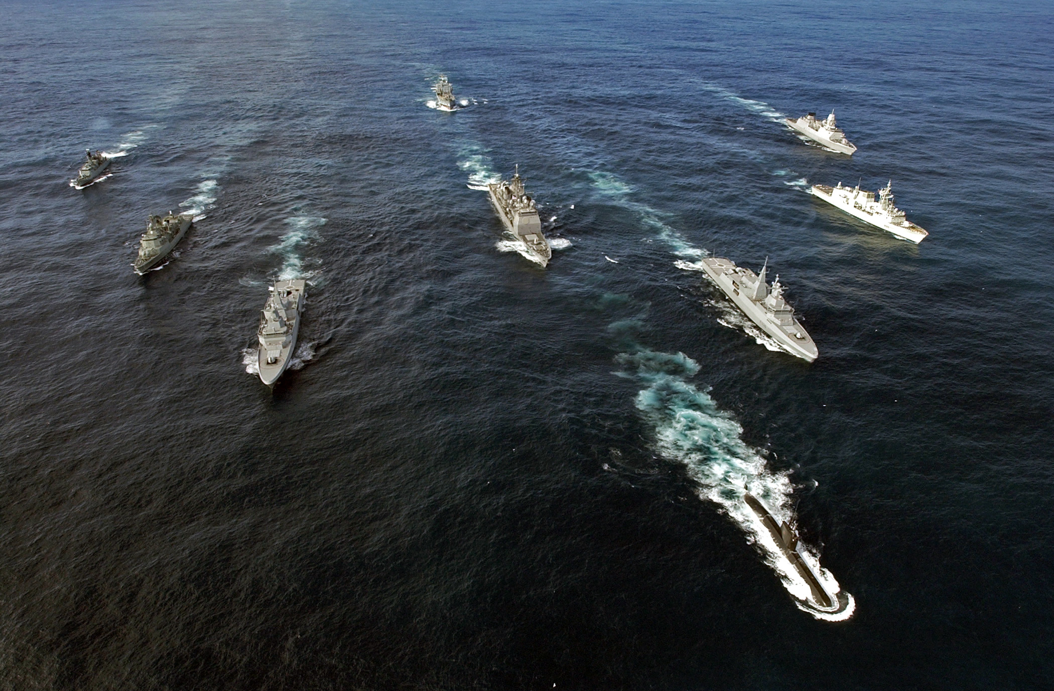 ATLANTIC OCEAN (Sept. 3, 2007) - The ships that make up Standing NATO Maritime Group (SNMG) 1 transit in formation while participating in Exercise Amazolo with the South African navy. SNMG1 is on a historic NATO deployment circumnavigating Africa for the first time and traveling more than 12,500 miles with six ships from six different nations. During the deployment, SNMG1 is scheduled to conduct presence operations in the Gulf of Guinea, Horn of Africa, and Red Sea. U.S. Navy photo by Mass Communication Specialist 3rd Class Vincent J. Street (RELEASED)